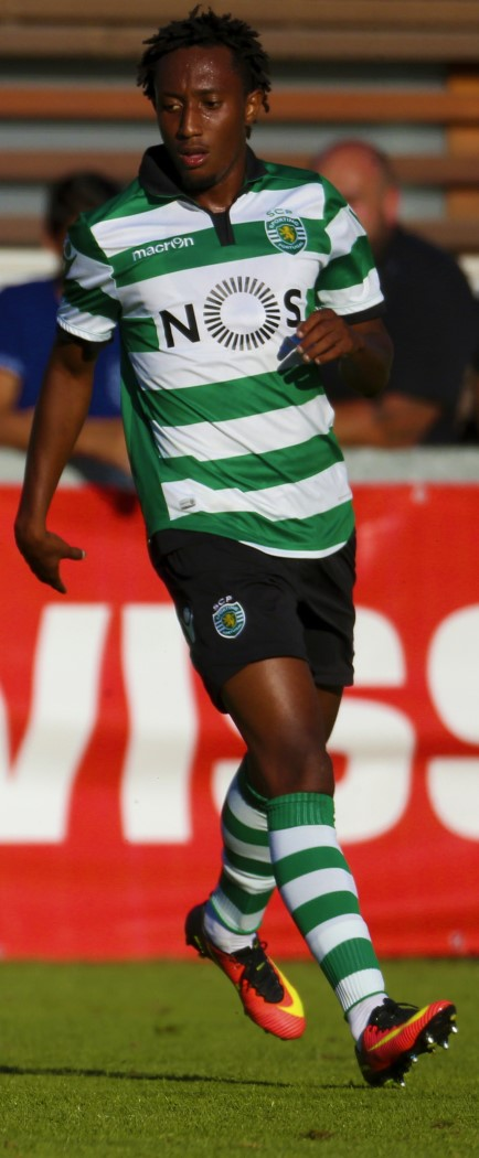 Gelson Martins